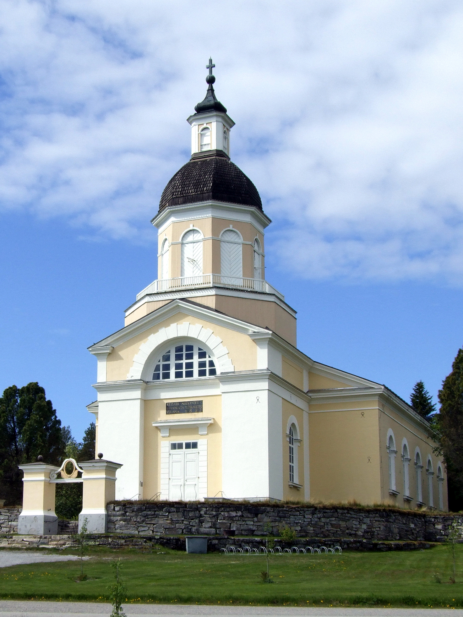 Keminmaa church. It was designed by Carl Ludvig Engel and built in 1827.